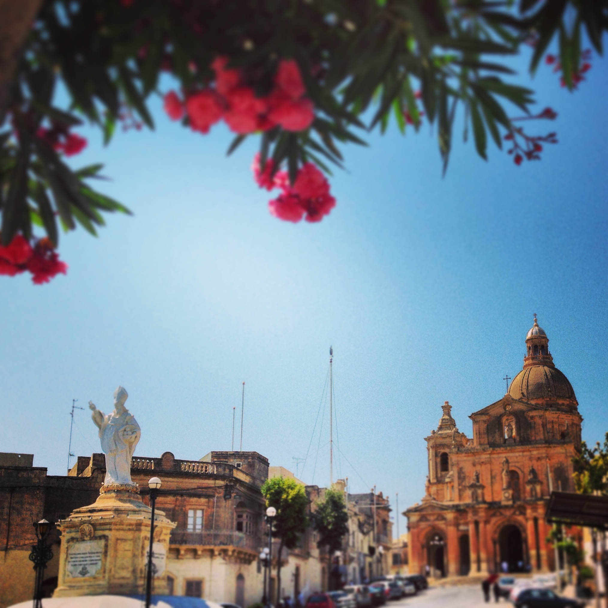 Pjazza San Nikola, Siġġiewi - Malta